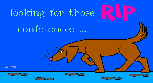 This is a line art picture of a brown dog tracking some foot prints. The caption in the graphics has a "looking for those RIP conferences..." This original art is represented in an 1990s vector graphics format known as Remote Imaging Protocol for transmitting graphics over modem. The original file is called HOUND.RIP and has a file size of 2.73 KiB (versus the 8.0 KiB for the PNG file). Source RIP file is posted in the discussion. The graphics were converted using a combination of the Freeview.exe v1.1 and DOSBox v0.74 in order to use Windows XP's screen grab function.